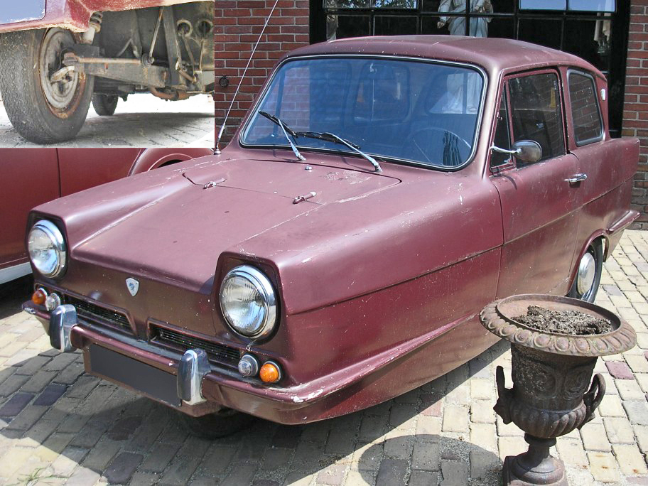 Reliant Regal 3/30 Dutch registration says: Issued 1973-04-06, 4 cylinders, 390kg net weight --- Location: Near Goor, Netherlands